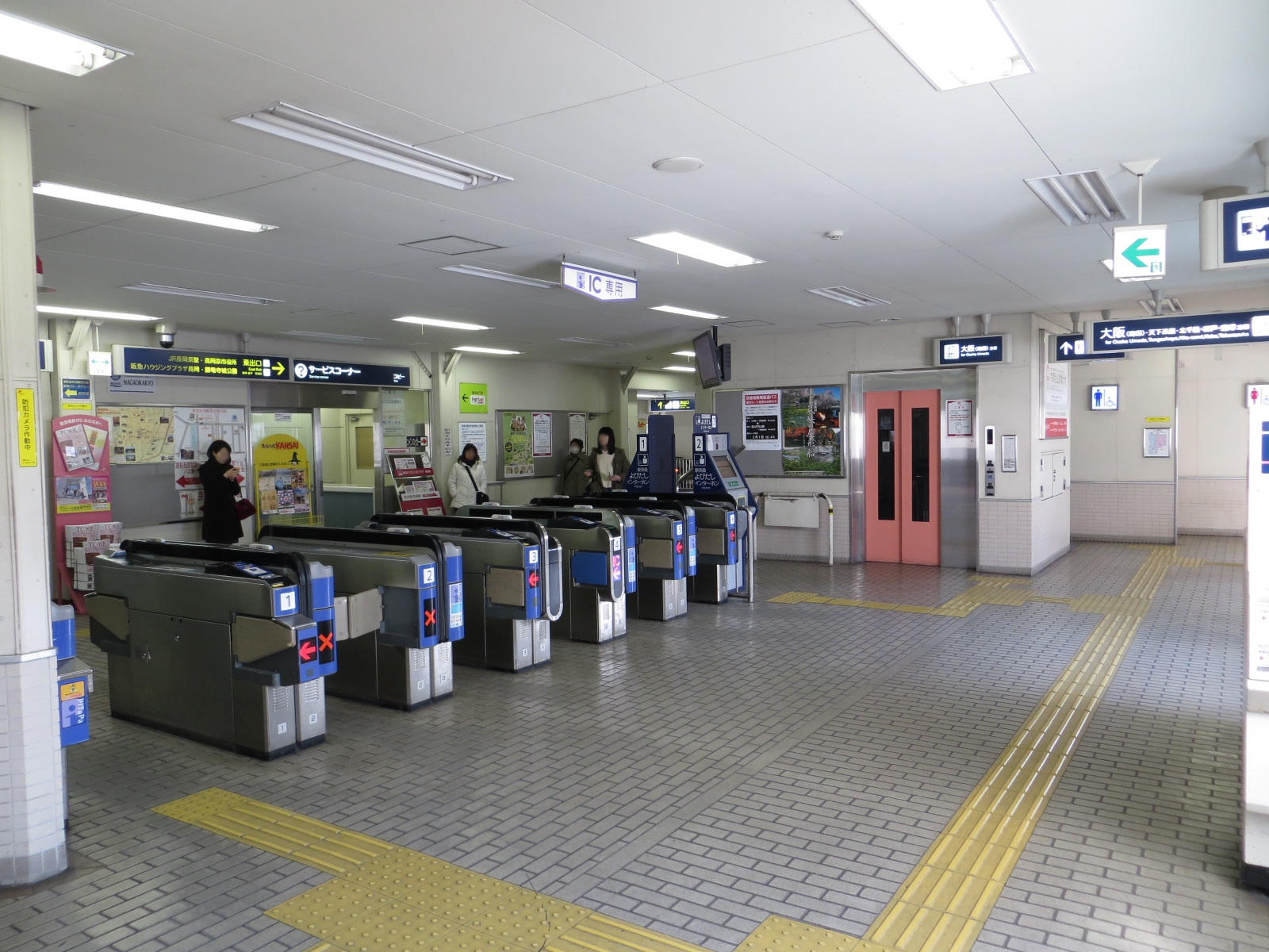 Ticket barrier from Nagaoka-tenjin Station (HK77).